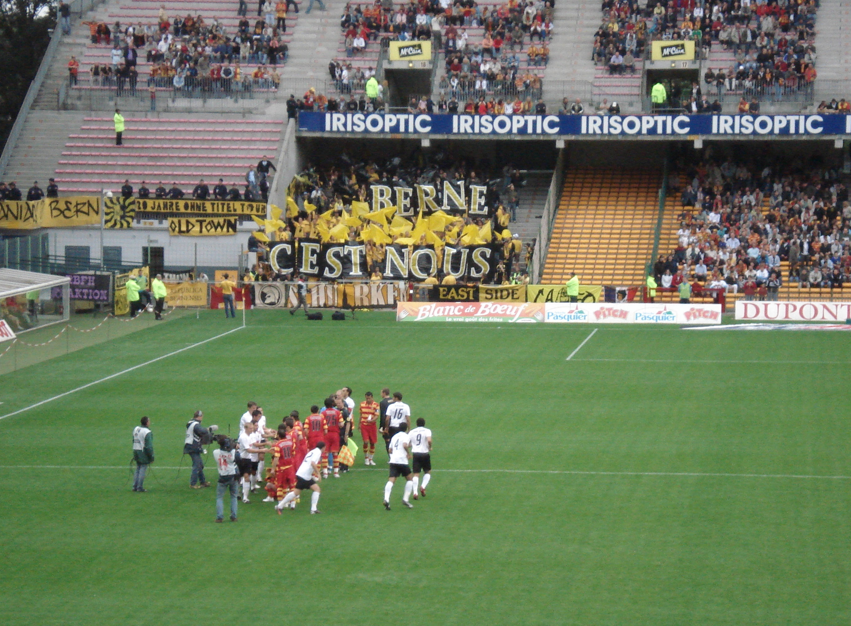 Lens - Young Boys Berne 2007